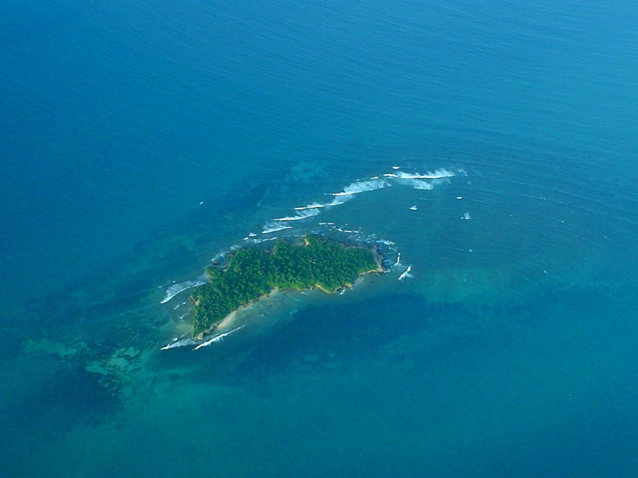 Pangavini Island, located in the Zanzibar Channel, about 1 mile off the north coast of Dar es Salaam (Tanzania), is part of the "Dar es Salaam Marine Reserve System" (DMRS). The island has a length of about 250 m.